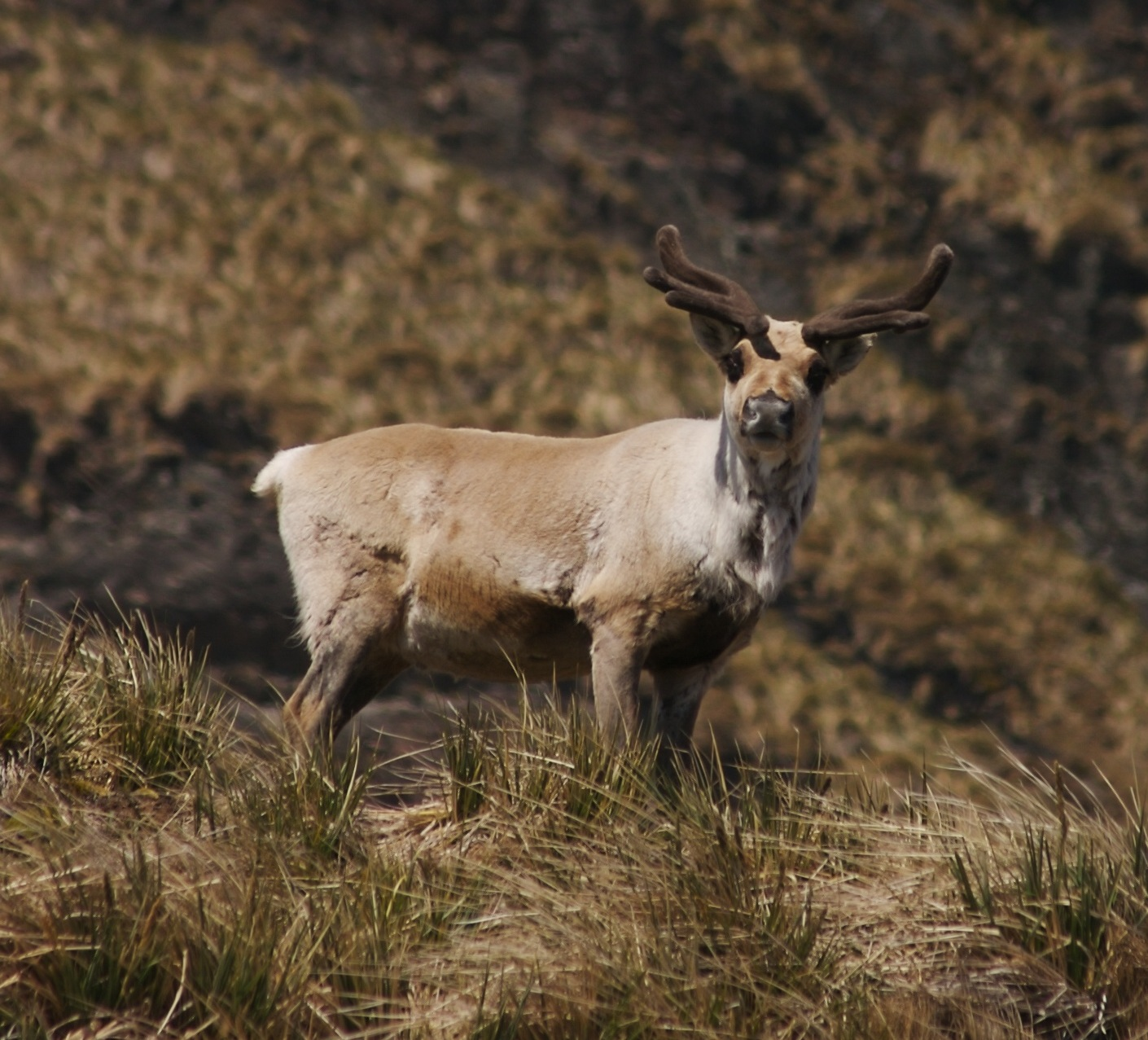 A wild reindeer with velvet covered antlers. Part of the southern herd on the island of South Georgia in the South Atlantic.